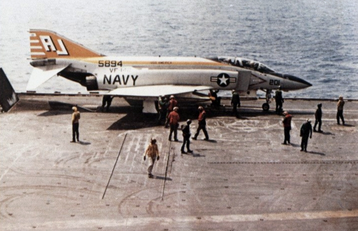 A U.S. Navy McDonnell F-4J-39-MC Phantom II (BuNo 155894) from Fighter Squadron VF-142 Ghostriders on the catapult of the aircraft carrier USS America (CVA-66), in 1974. VF-142 was assigned to Carrier Air Wing 8 (CVW-8) aboard the America for a deployment to the Mediterranean Sea from 3 January to 3 August 1974. The F-4J 155894 was retired on 2 March 1983 and sold to the Royal Air Force on 26 November 1984, s/n ZE364.